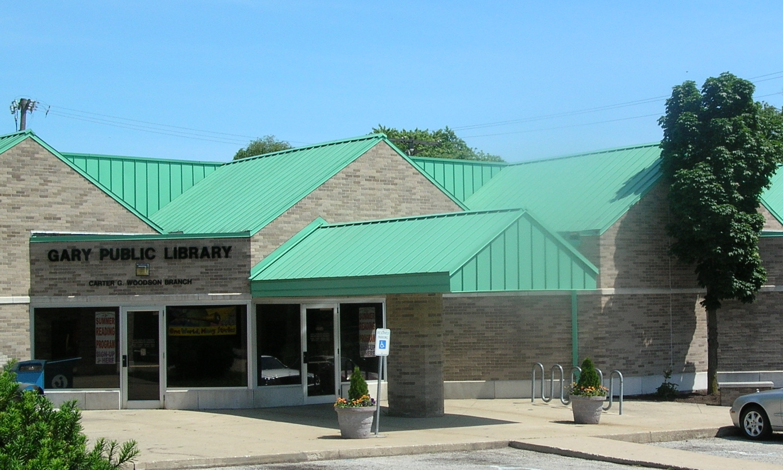 Carter G. Woodson Branch of the Gary Public Library, constructed 1991, in the Miller Beach neighborhood of Gary, Indiana.